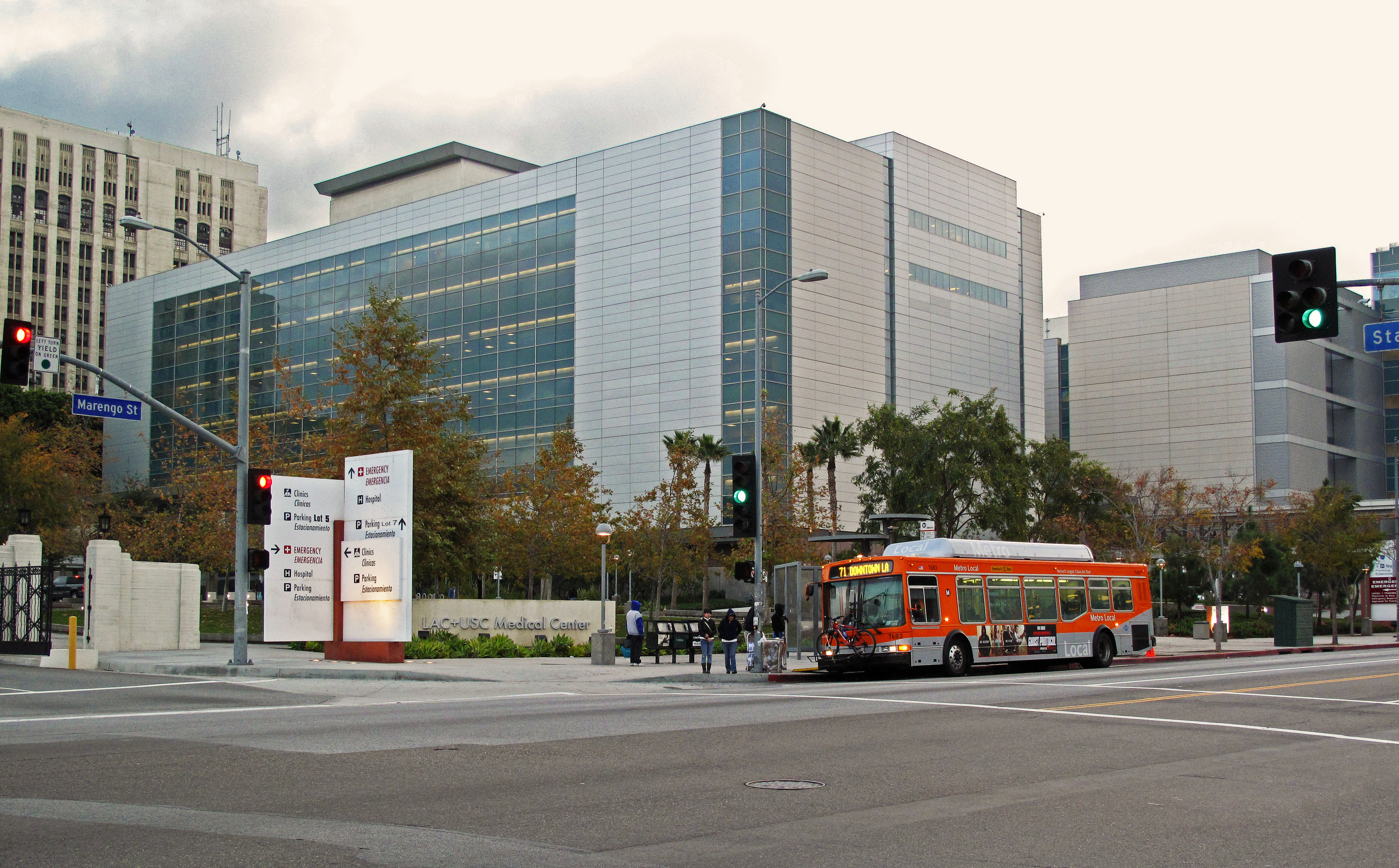 Clinic Tower of LAC+USC Medical Center, with sign and Metro bus, early morning.